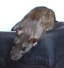 The rat on the picture is Esmeralda Took and the photo was taken at a rat show.